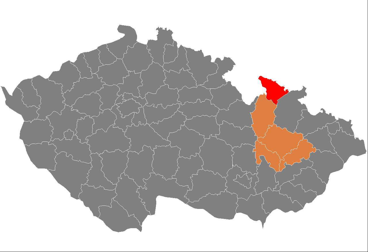 Location of Jeseník District in Olomouc Region of the Czech Republic. This is part of Silesia.